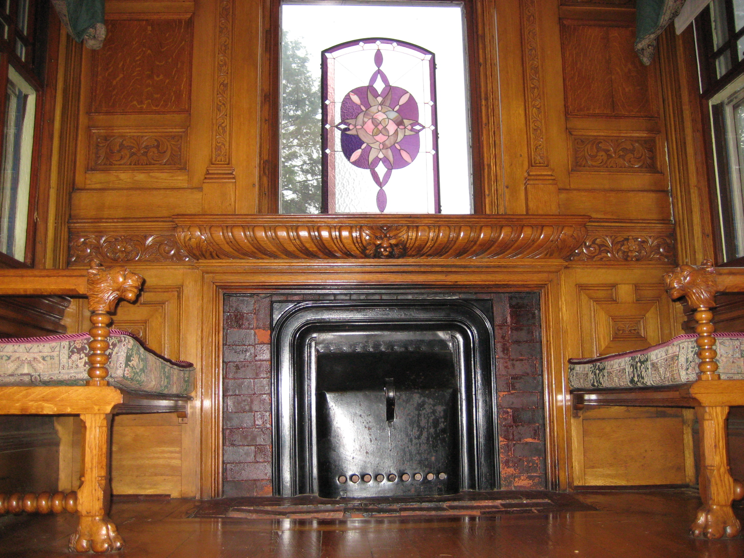 Working fireplace with window built into the middle of it, including seating area.